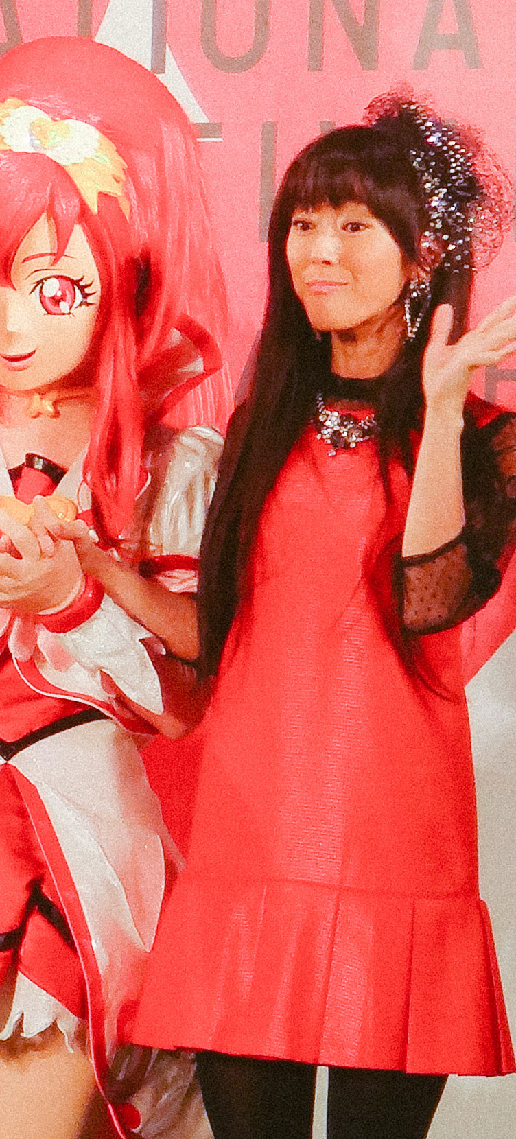 A cropped version of the previously uploaded photo of DokiDoki Pretty Cure!'s seiyu, uploaded by Coro95.